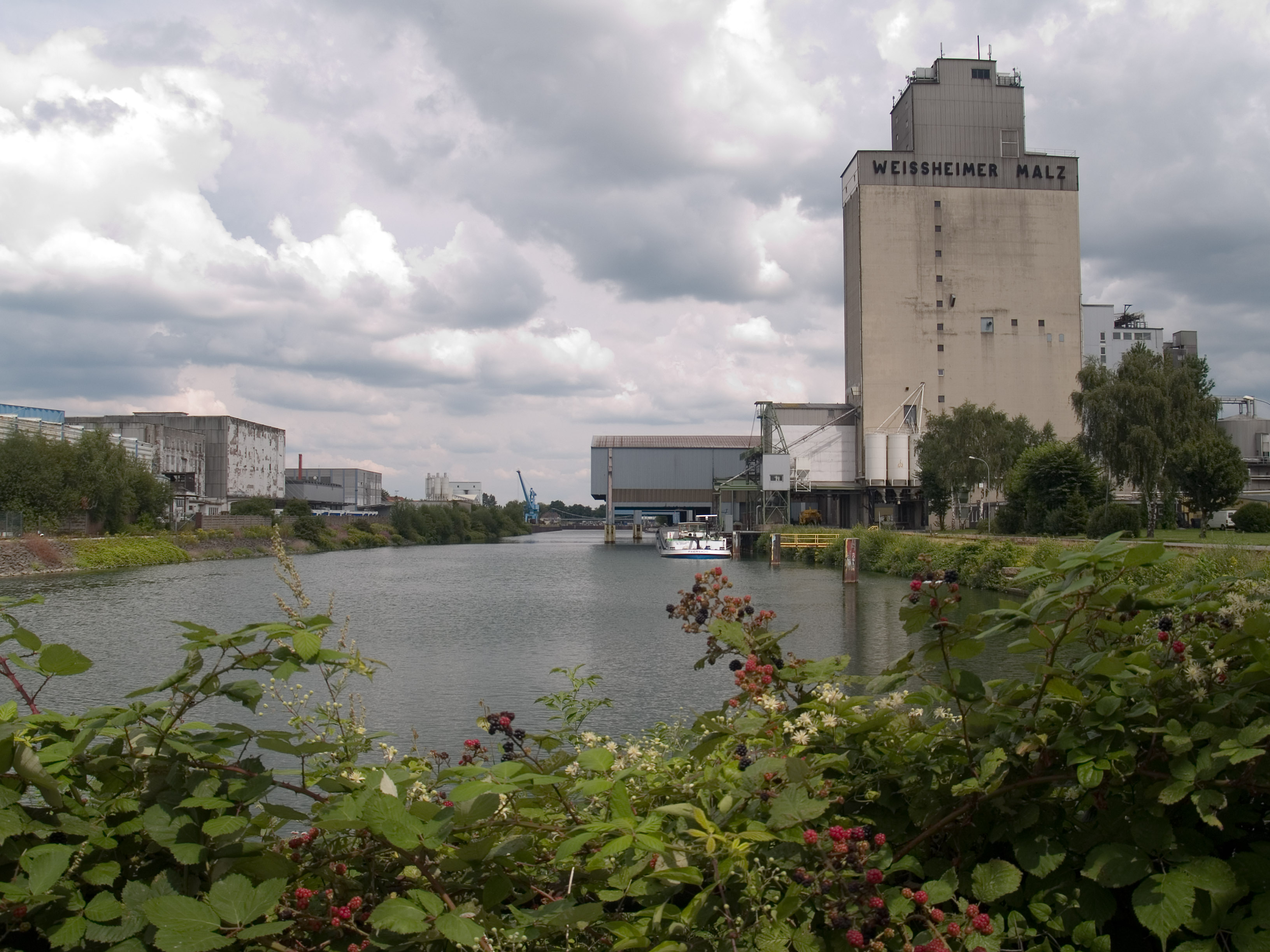 The industrial part of the port of Gelsenkirchen, Germany at the Rhein-Herne-Kanal